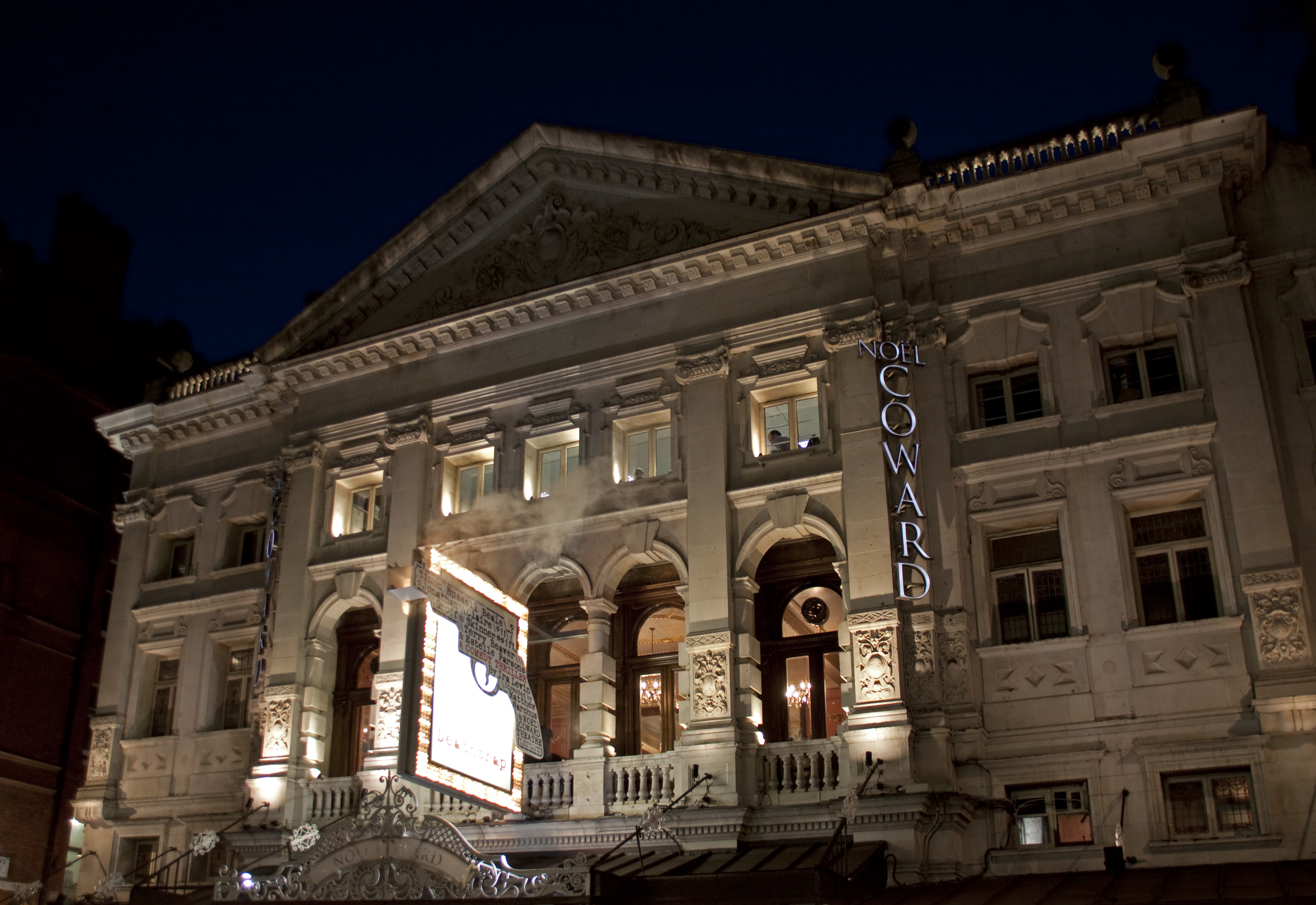 Noel Coward Theatre 2